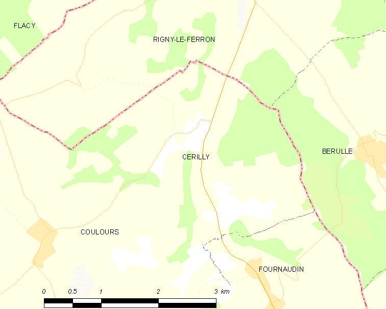 Map of French municipality Cérilly